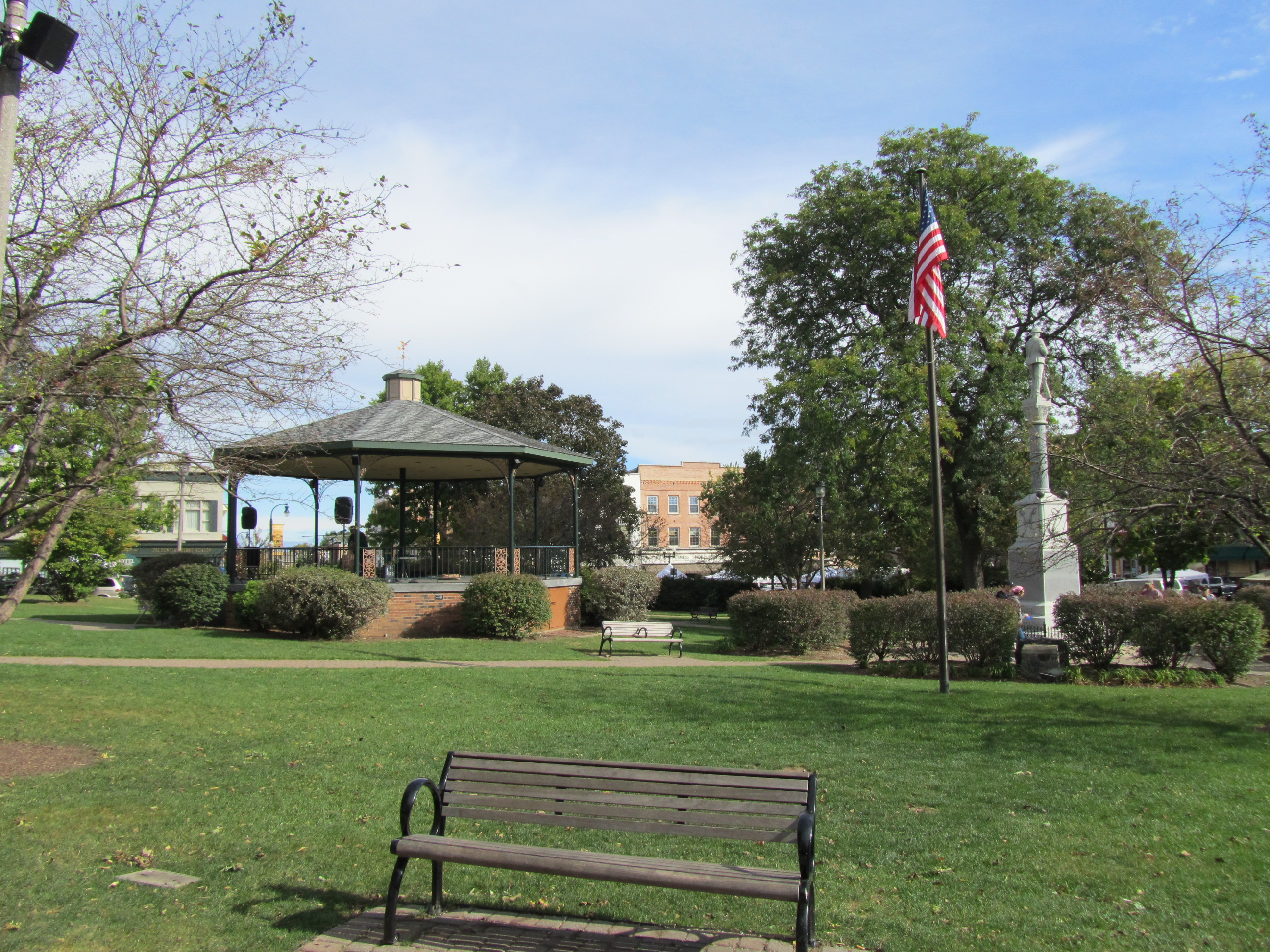 Woodstock square in Woodstock, IL